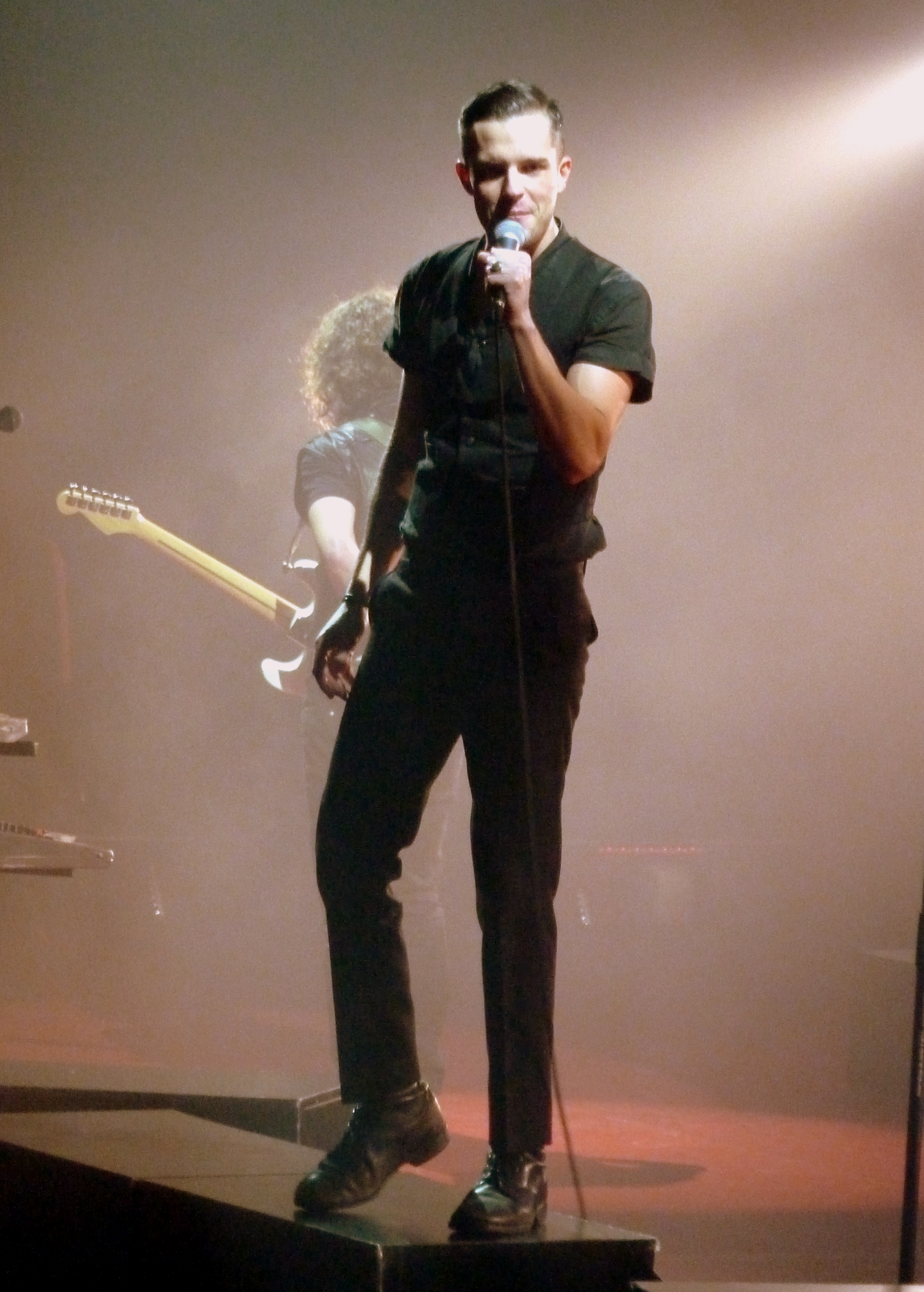 Brandon Flowers of the band The Killers performing at Eastern Michigan University Convocation Center in Ypsilanti near Detroit, Michigan